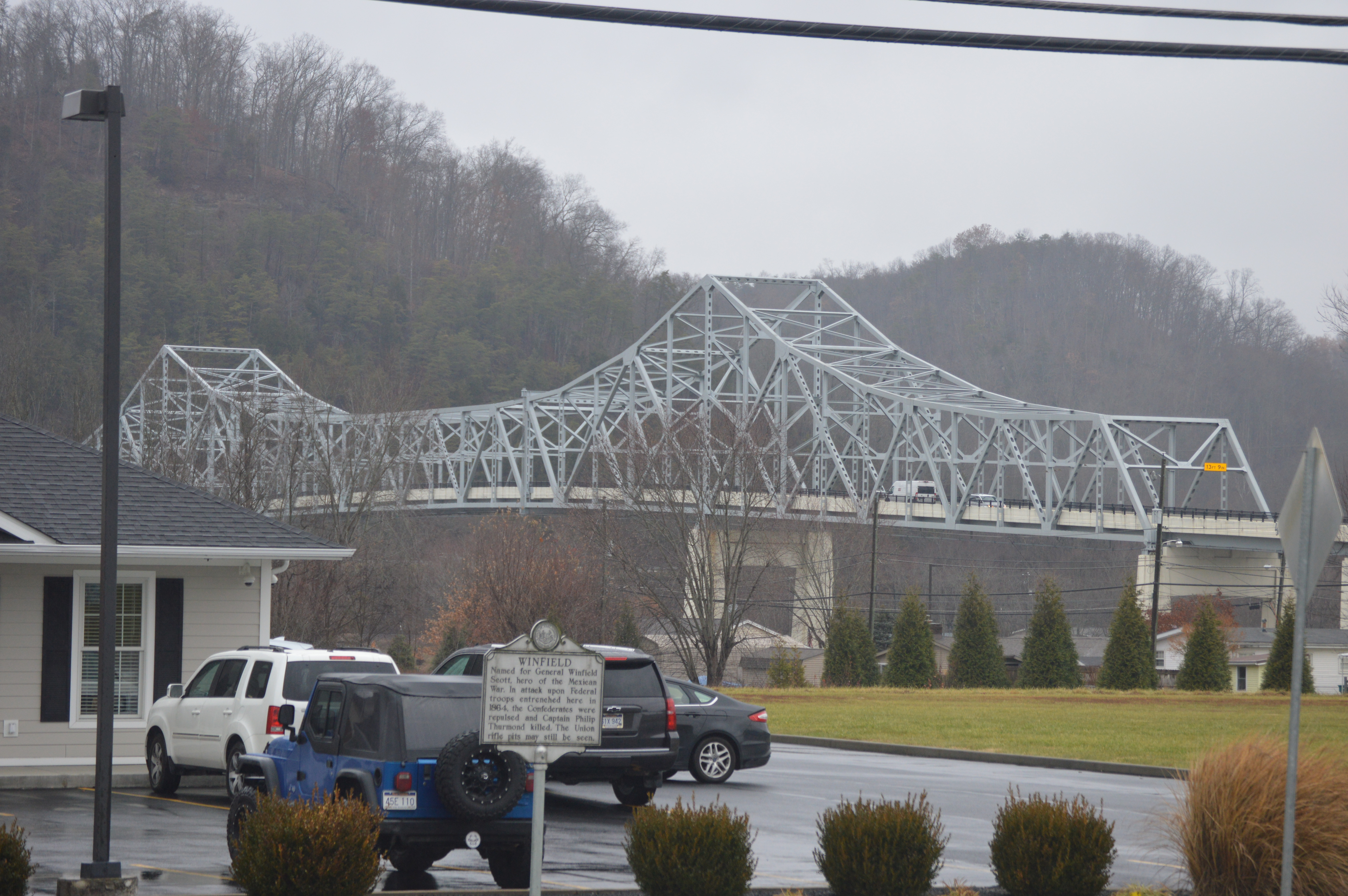 Distant view from the south of the Winfield Toll Bridge, which carries West Virginia Route 34 over the Kanawha River at Winfield, West Virginia, United States. Built in 1955, it is listed on the National Register of Historic Places.